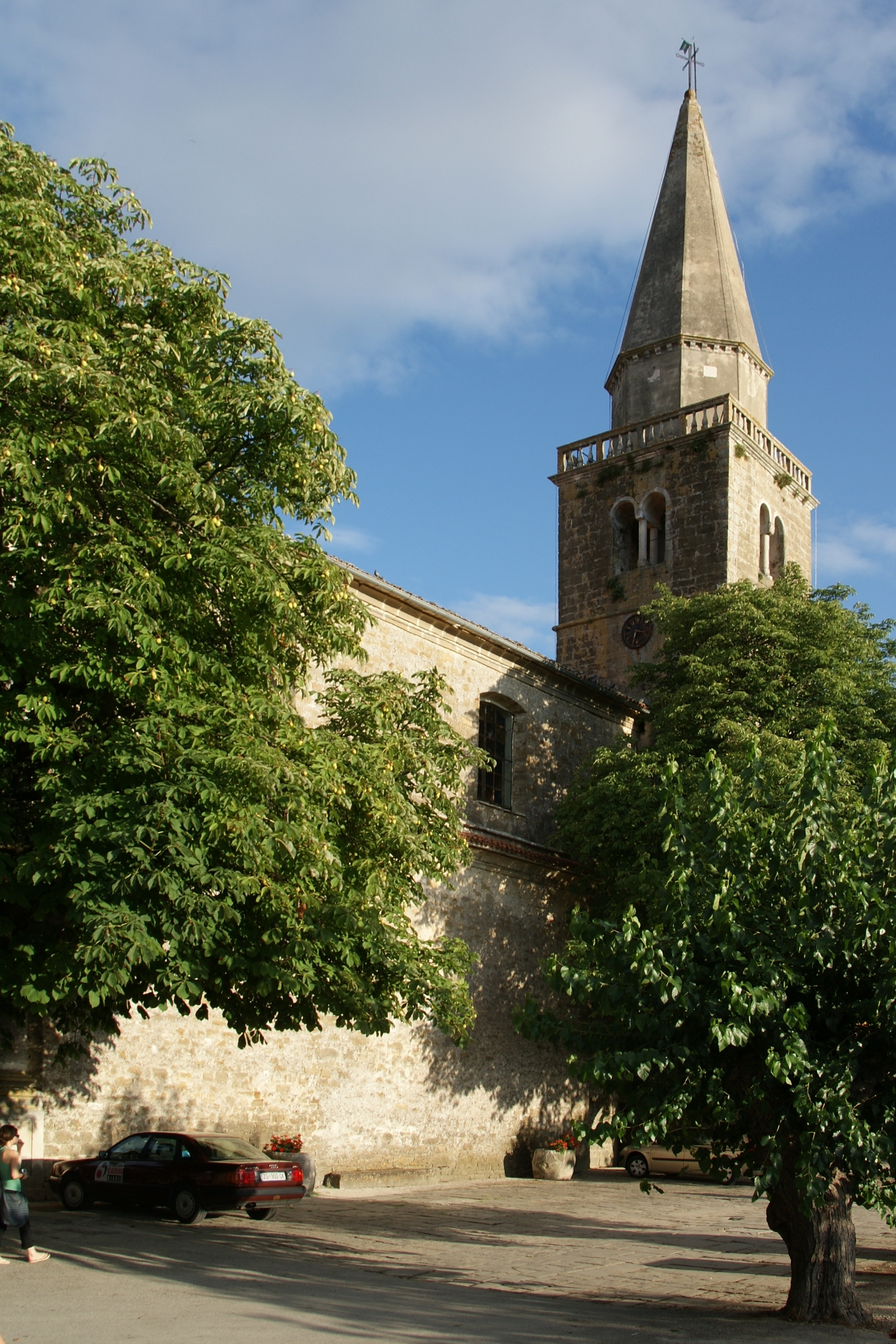 Grožnjan, Istria